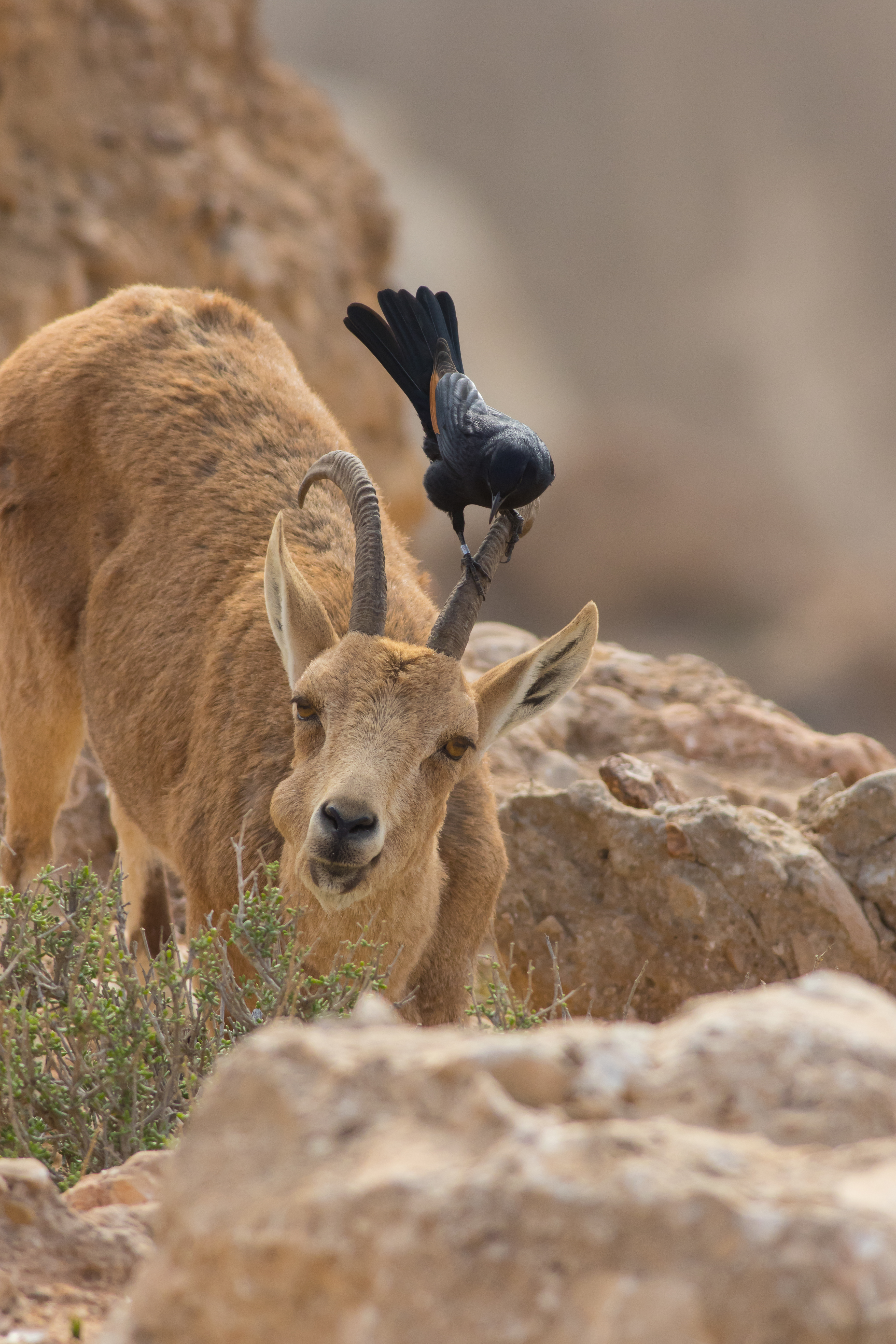 Nubian ibex (Capra nubiana) with Tristram's starling (Onychognathus tristramii) , photo taken in Sde Boker, Israel.